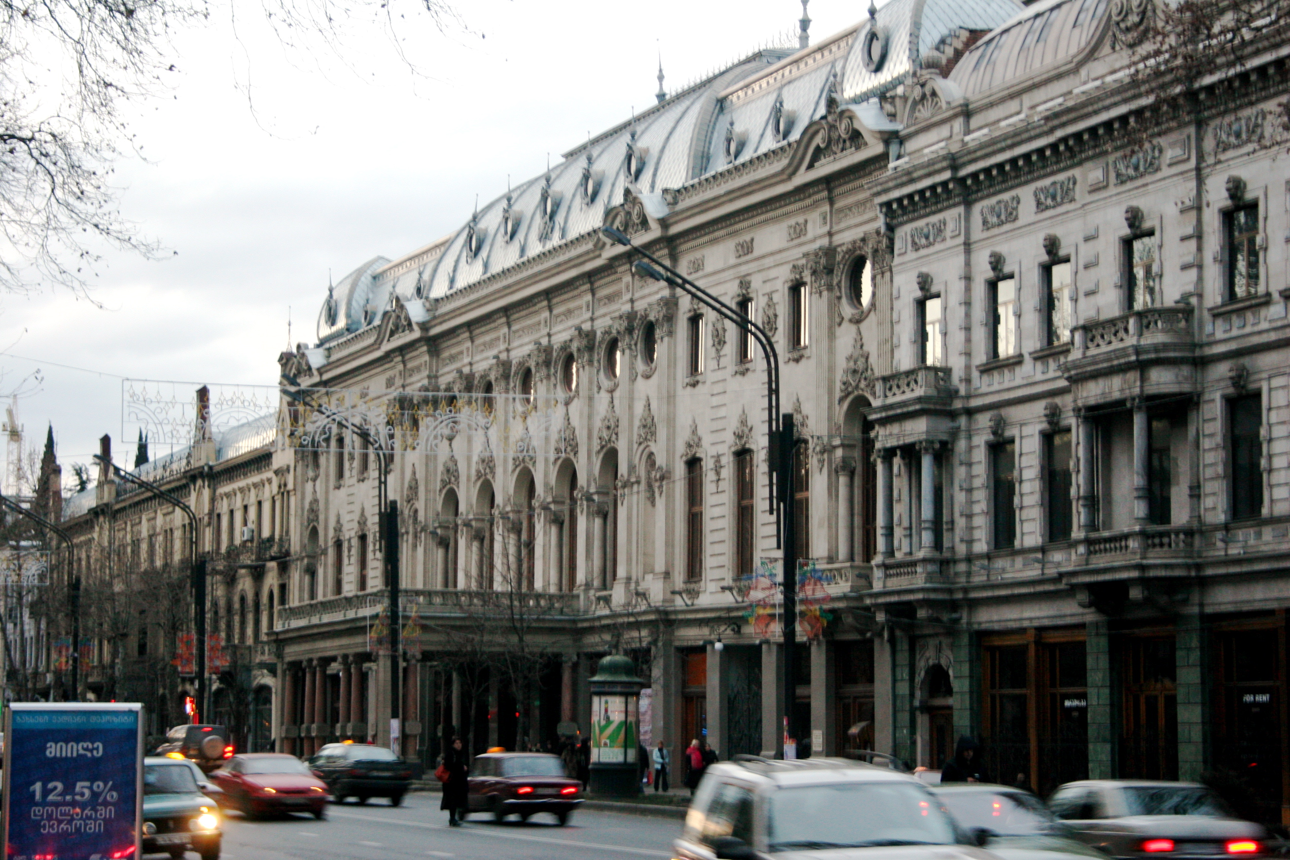 Rustaveli Theatre Facade, Tbilisi, Georgia